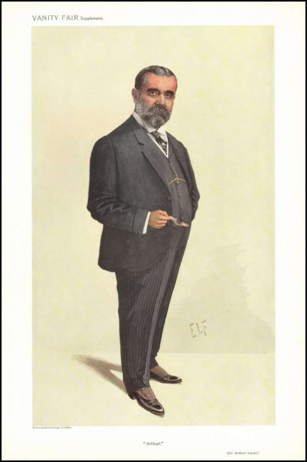 Men of the Day No.1174: Caricature of Sir Arthur Lucas Bt [1]. Caption reads: "Arthur"